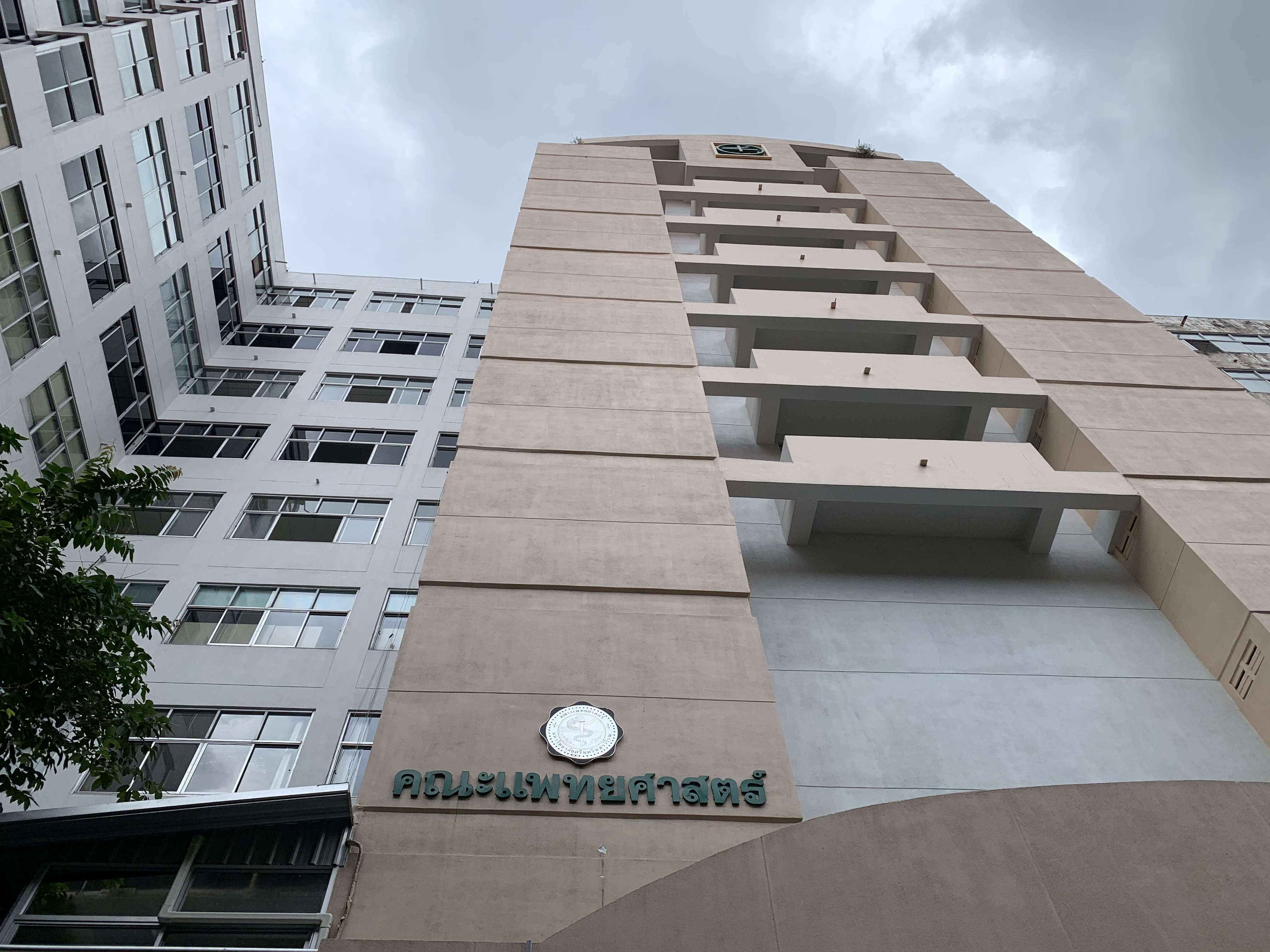 Faculty of Medicine Building (Bldg 15), Srinakharinwirot University (Prasarnmit Campus)